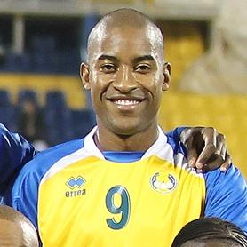 Edmilson from Al-Gharafa